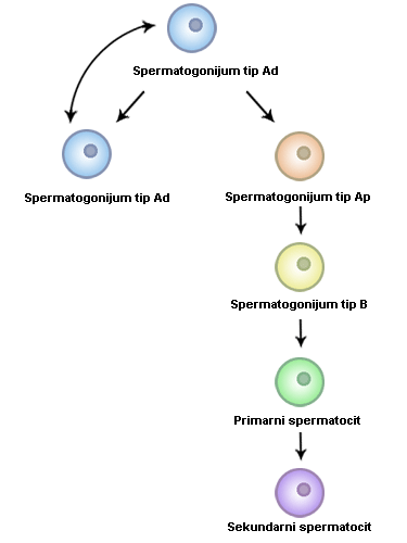 Diagram of the process of spermatocytogenesis. Strictly schematic.